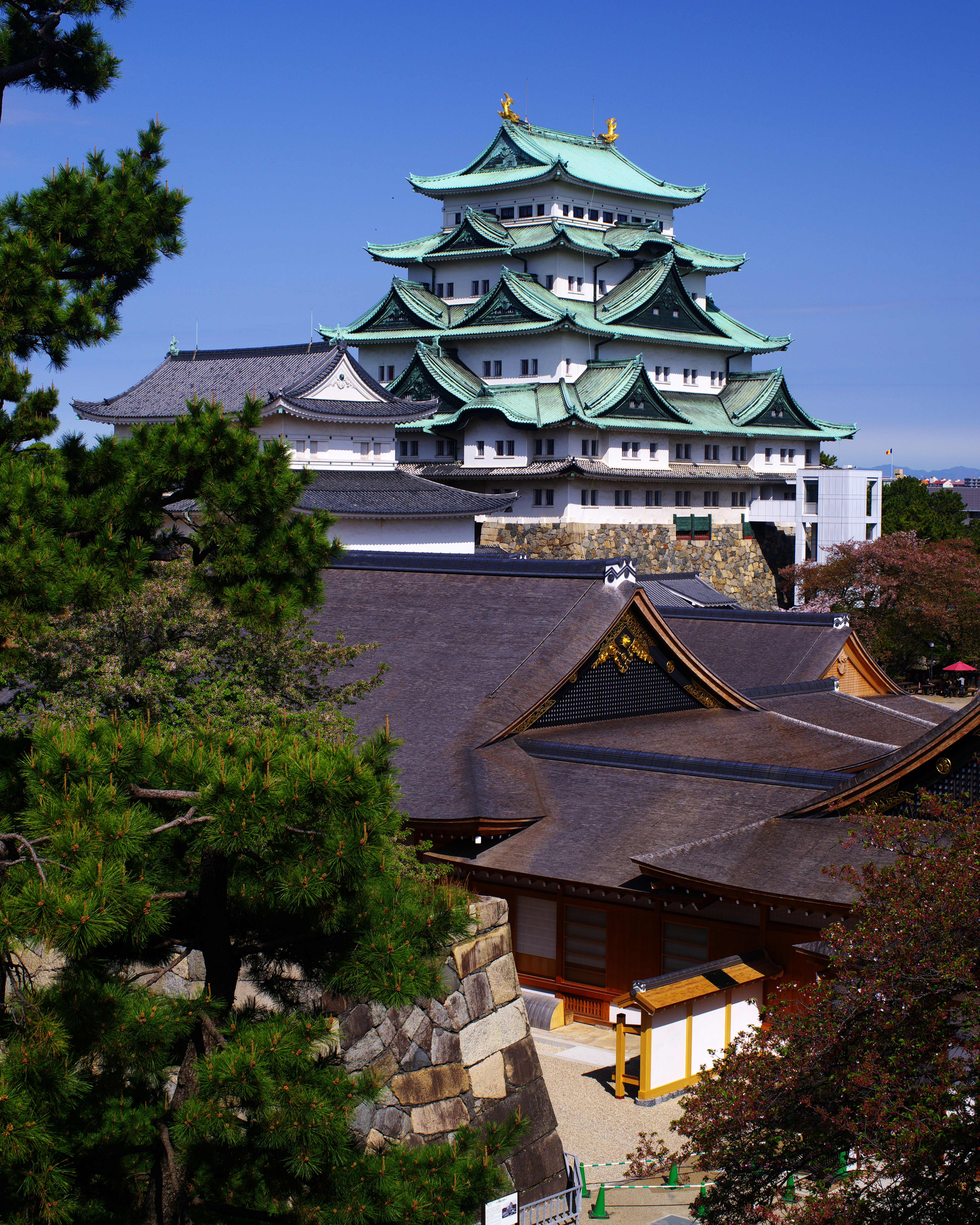 Tenshu and Honmaru Goten of Nagoya Castle. April, 2018.